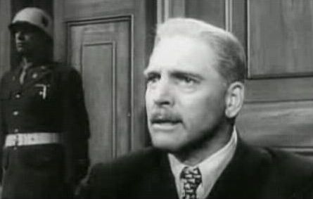 Screenshot of Burt Lancaster from the film Judgment at Nuremberg (1961)